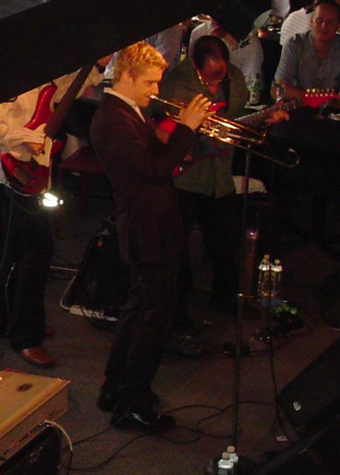 Musician Chris Botti